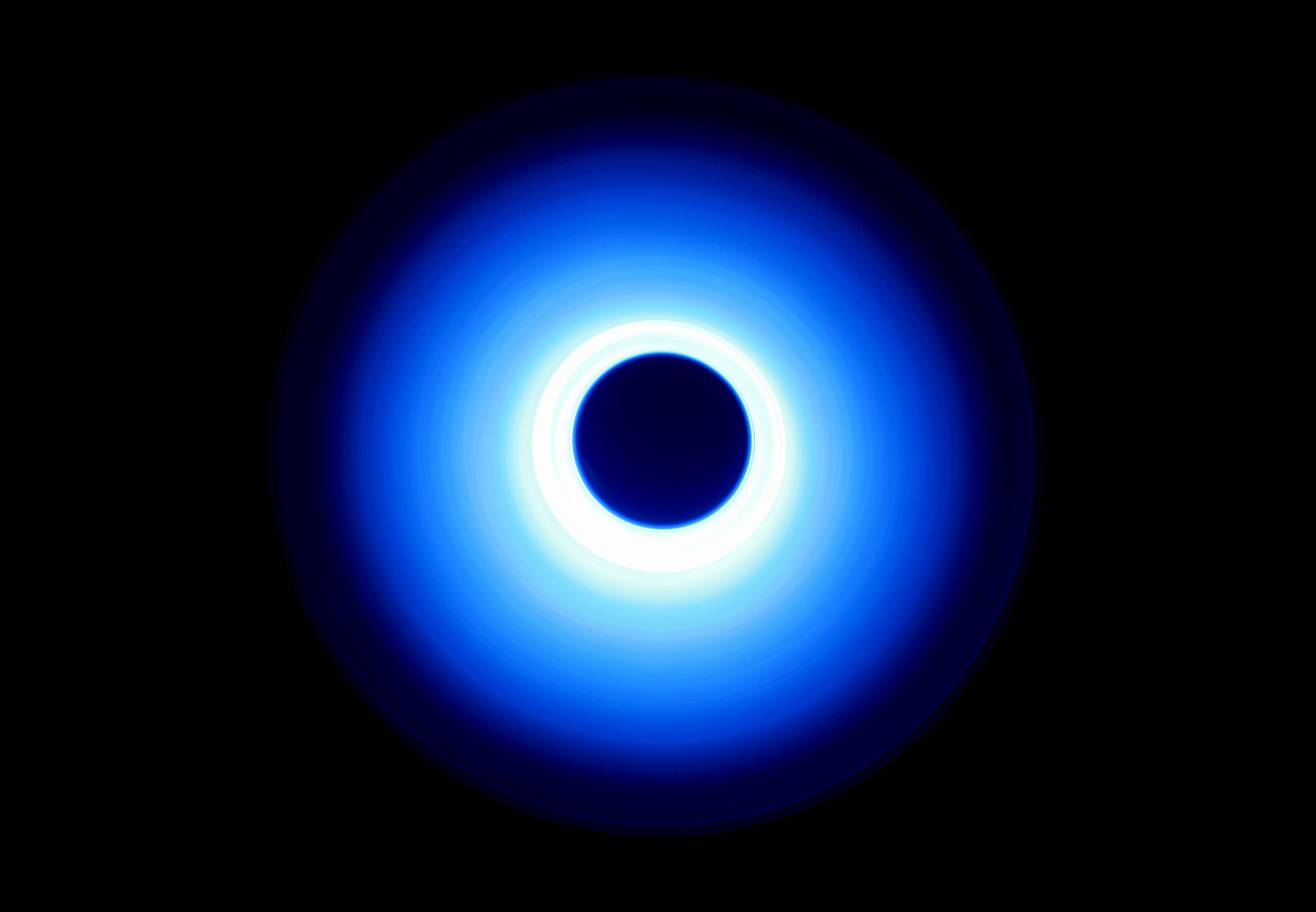 Blue LED and USB powered 90 mm diameter two-blade mini-fan. During functions it makes LED art/light art